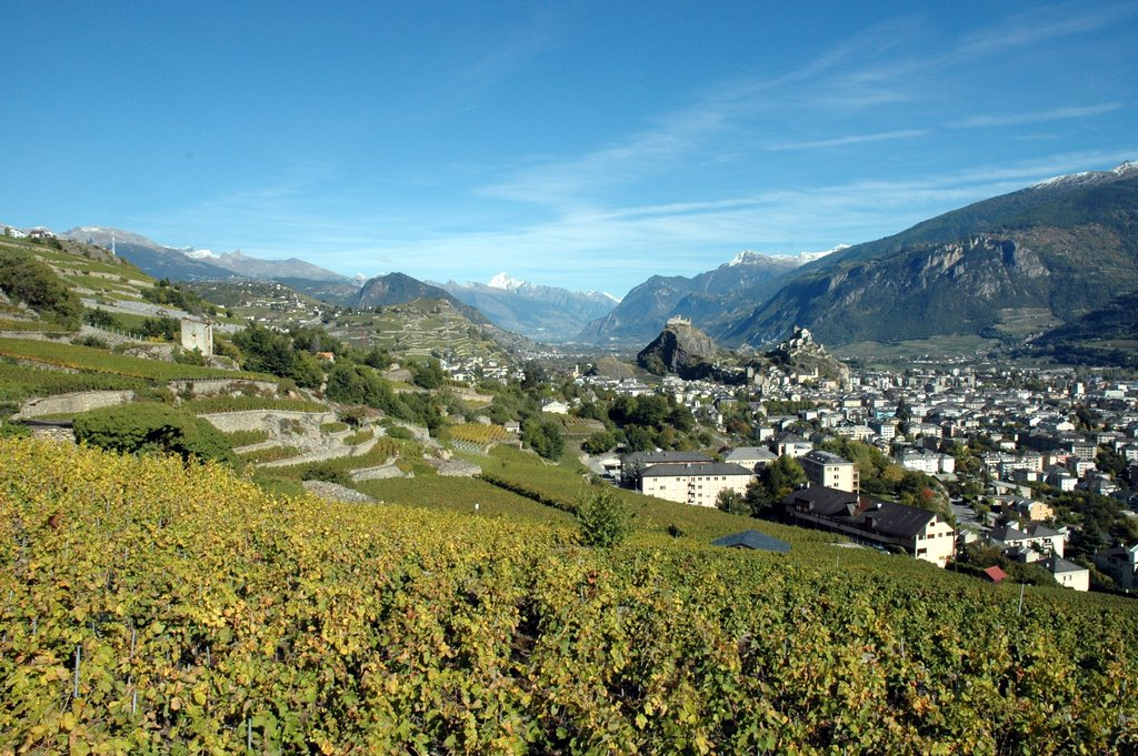 Sion, its vineyards, the Valère Basilica and Tourbillion Castle.(heading: ENE)